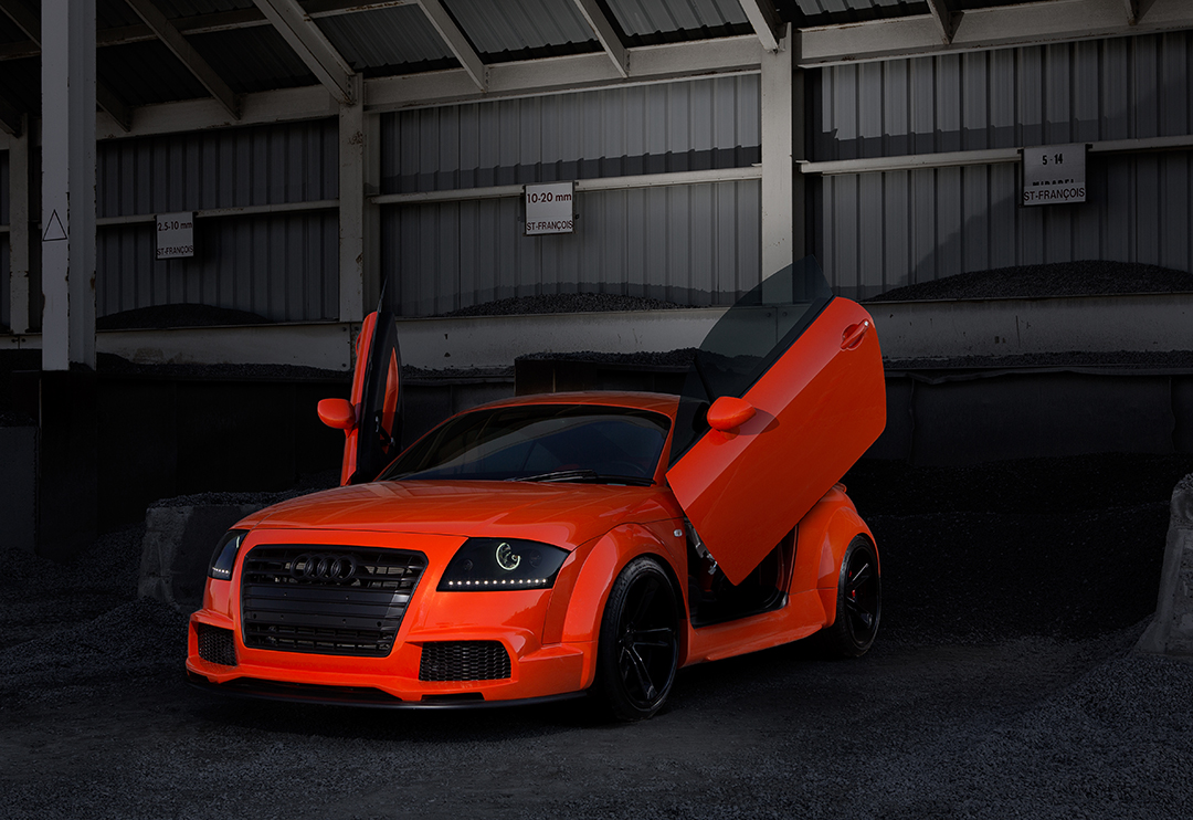 from